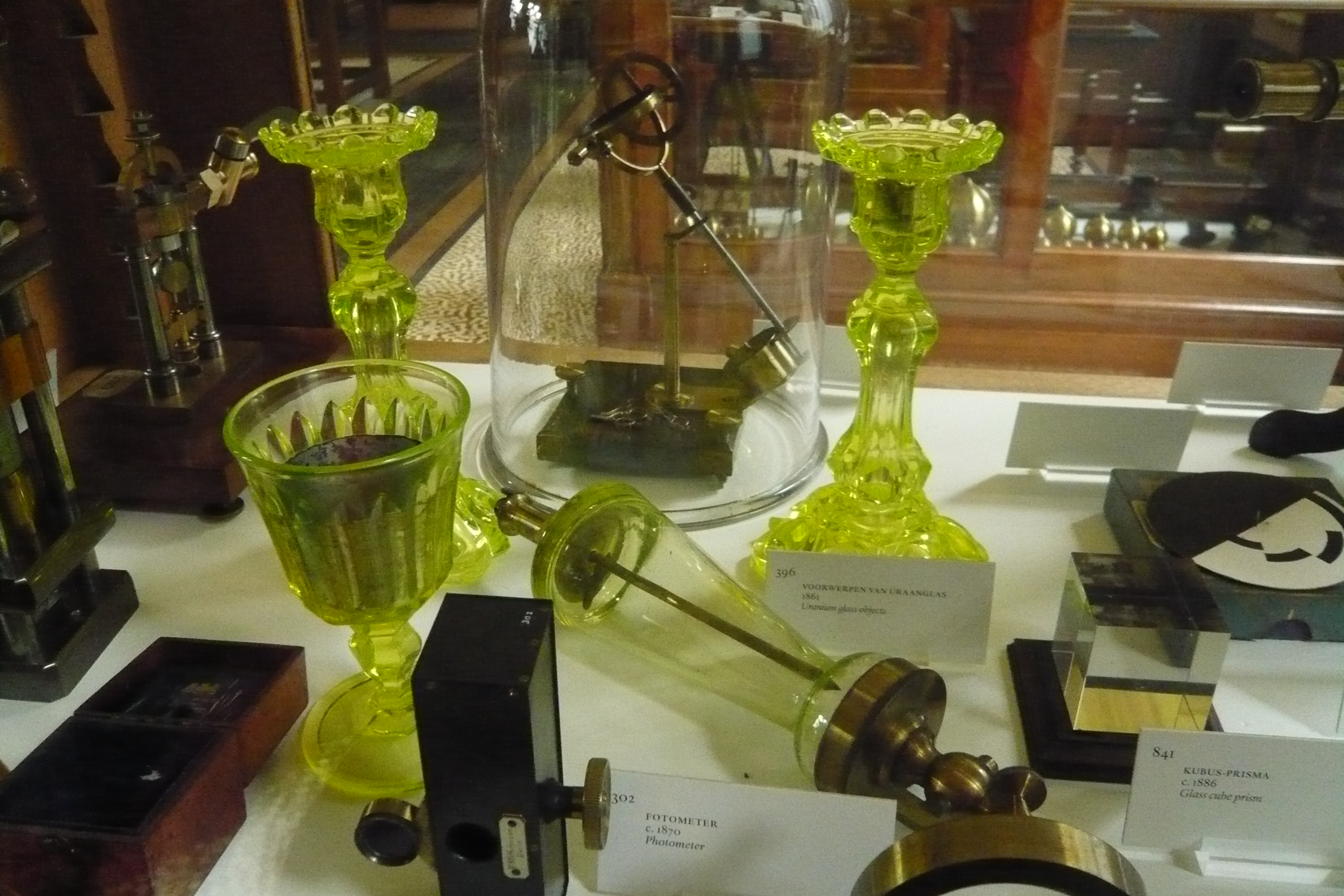 Instrument room, Teylers Museum, The Netherlands Cabinet VII